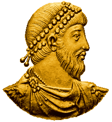 IMPERATOR - imperatorDOMINVS·NOSTER - our lordFLAVIVS·CLAVDIVS·IVLIANVS - Flavius Claudius JulianusNOBILISSIMVS·CAESAR - the most noble CaesarPERPETVVS·AVGVSTVS - perpetual Augustus Description: Portret van Julianus Apostata op bronzen munt van Antiochië, 360-363. Foto met toestemming van Classical Numismatic Group, Inc. (CNG) *Source: Dutch Wikipedia, original upload 13 apr 2004 by CharlesS